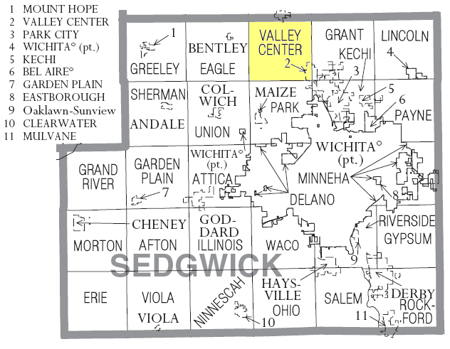 Map of Sedgwick County, Kansas highlighting Valley Center Township